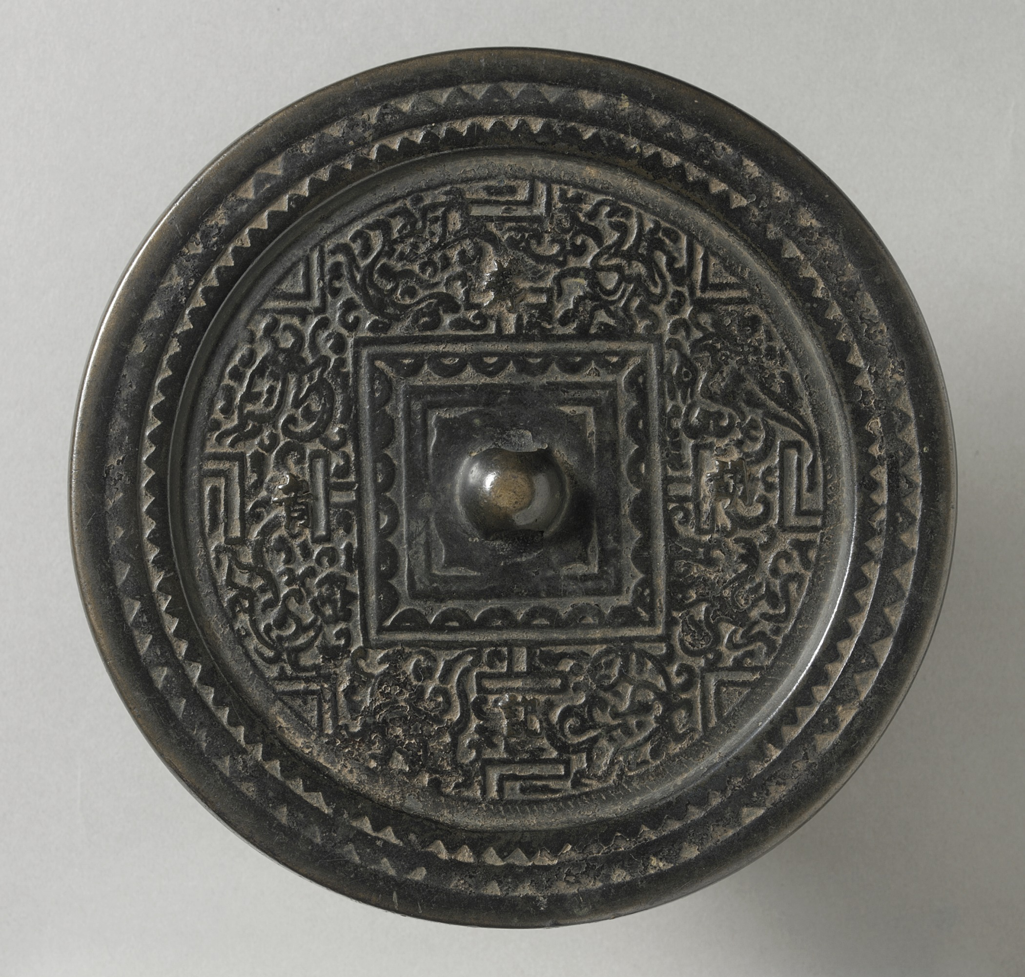 China, Eastern Han dynasty, 25-220 Furnishings; Accessories Cast bronze 1/2 x 6 1/2 in. (1.27 x 16.51 cm) Gift of Mr. and Mrs. Eric Lidow (AC1998.251.29) Chinese Art